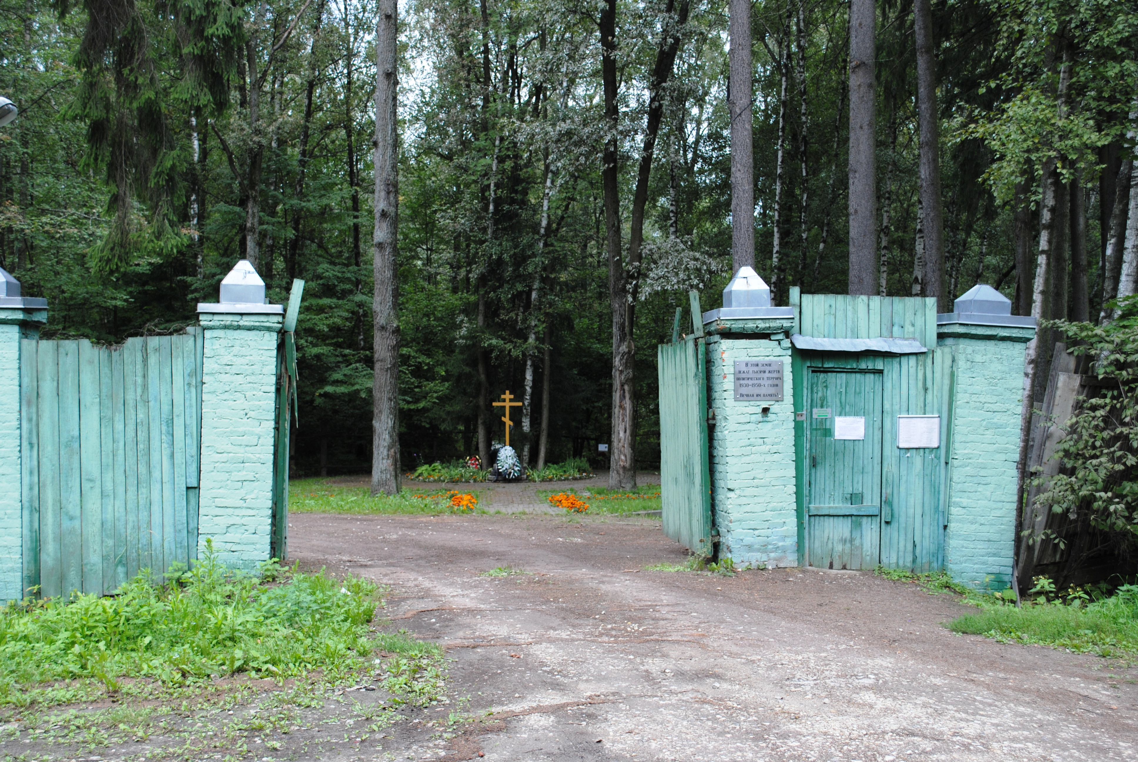 Poligon Kommunarka